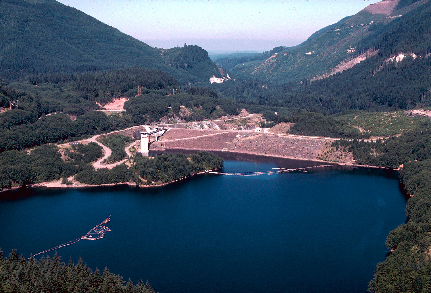 Aerial view of Howard A. Hanson Dam on the Green River in King County, Washington, USA. The photograph was taken at a low water time. The dam was completed in 1962 by the U.S. Army Corps of Engineers for flood control on the Green River. The dam is located in Eagle Gorge in the Cascades approximately 21 miles (straight line) east of Auburn, Washington.U.S. Army Corps of Engineers website